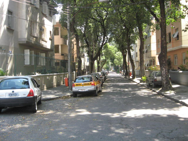 Lafayette Cortes street, Rio de Janeiro city, Brazil.